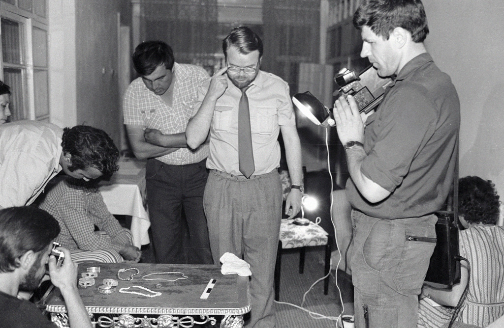 “An investigating team confiscating valuables.”. An investigating team of the USSR Prosecutor's Office confiscating valuables in the presence of witnesses of search (an investigation into the crimes of mafia administrators in the Uzbek SSR).